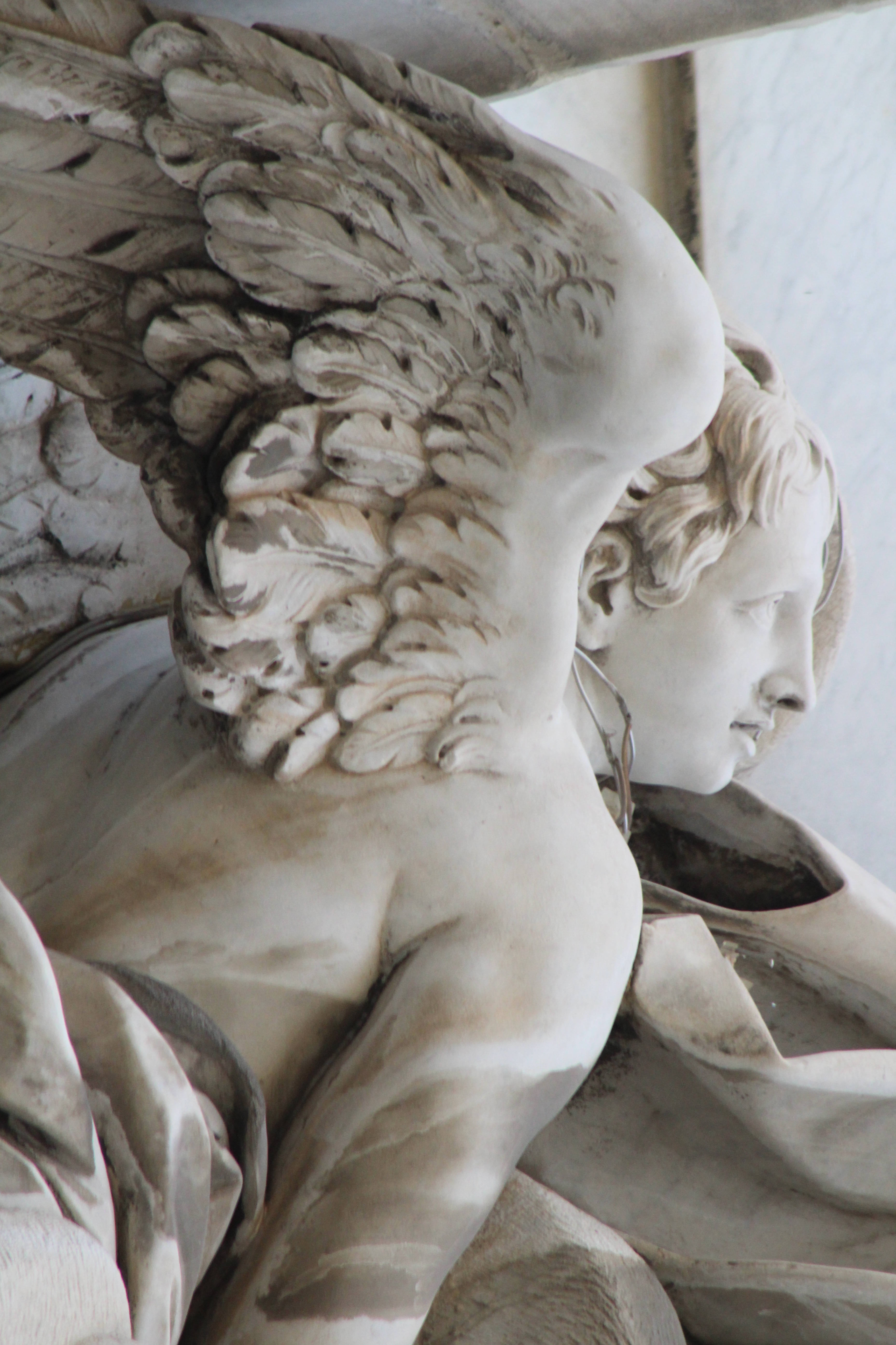 Giovanni Antonio Cybei, Assunta (detail), Savona, Cathedral